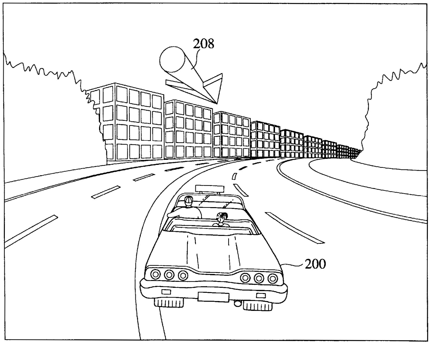 An image from US Patent 6,200,138 "Game display method, moving direction indicating method, game apparatus and drive simulating apparatus" (Fig. 13) filed by Sega, which patented elements of a few of its driving games, in this case, specifically Crazy Taxi